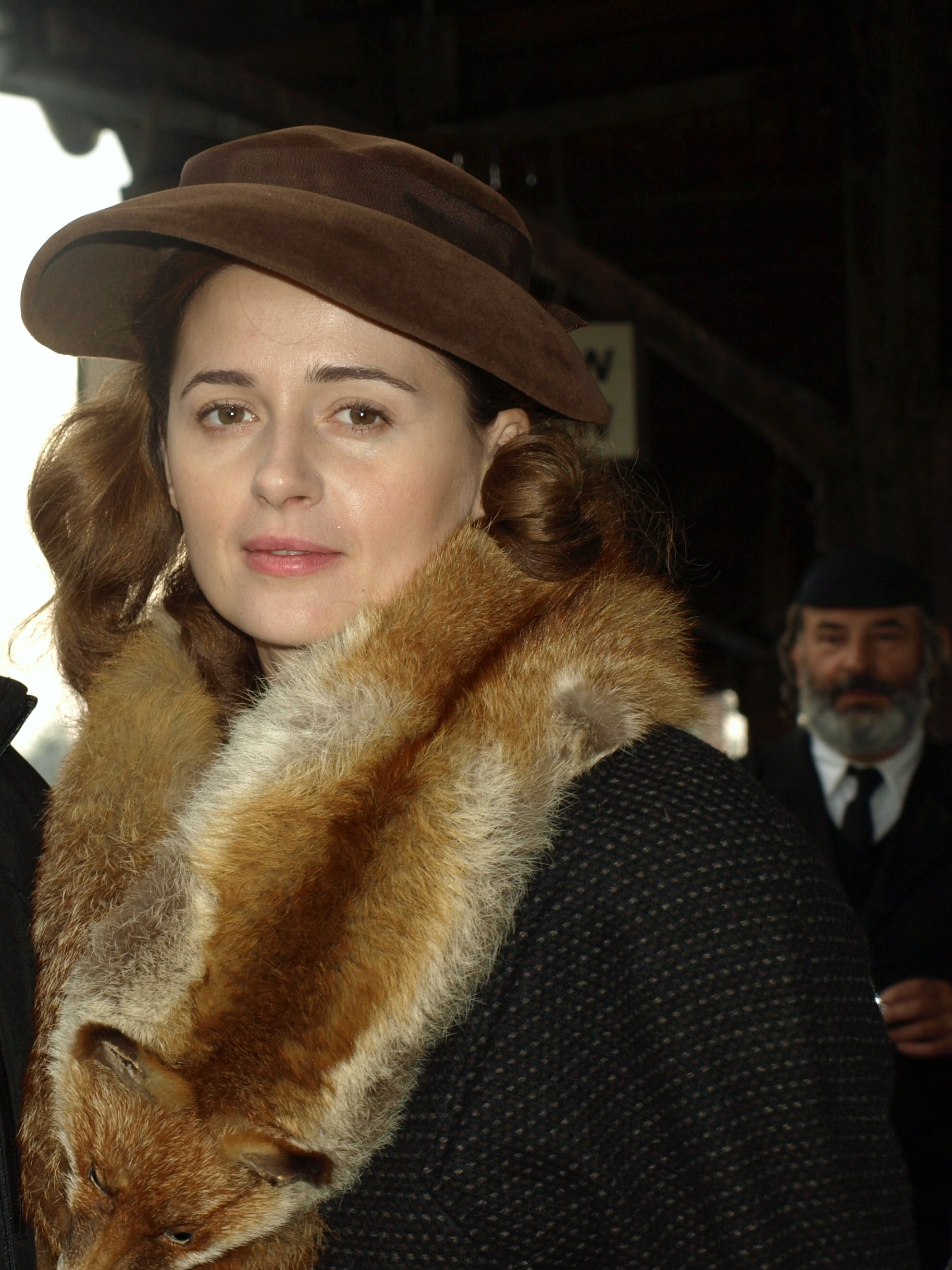 Polish actress Agnieszka Grochowska, the "Persona Non Grata" (original title: "Sugihara Chiune") filmmaking in Poland.